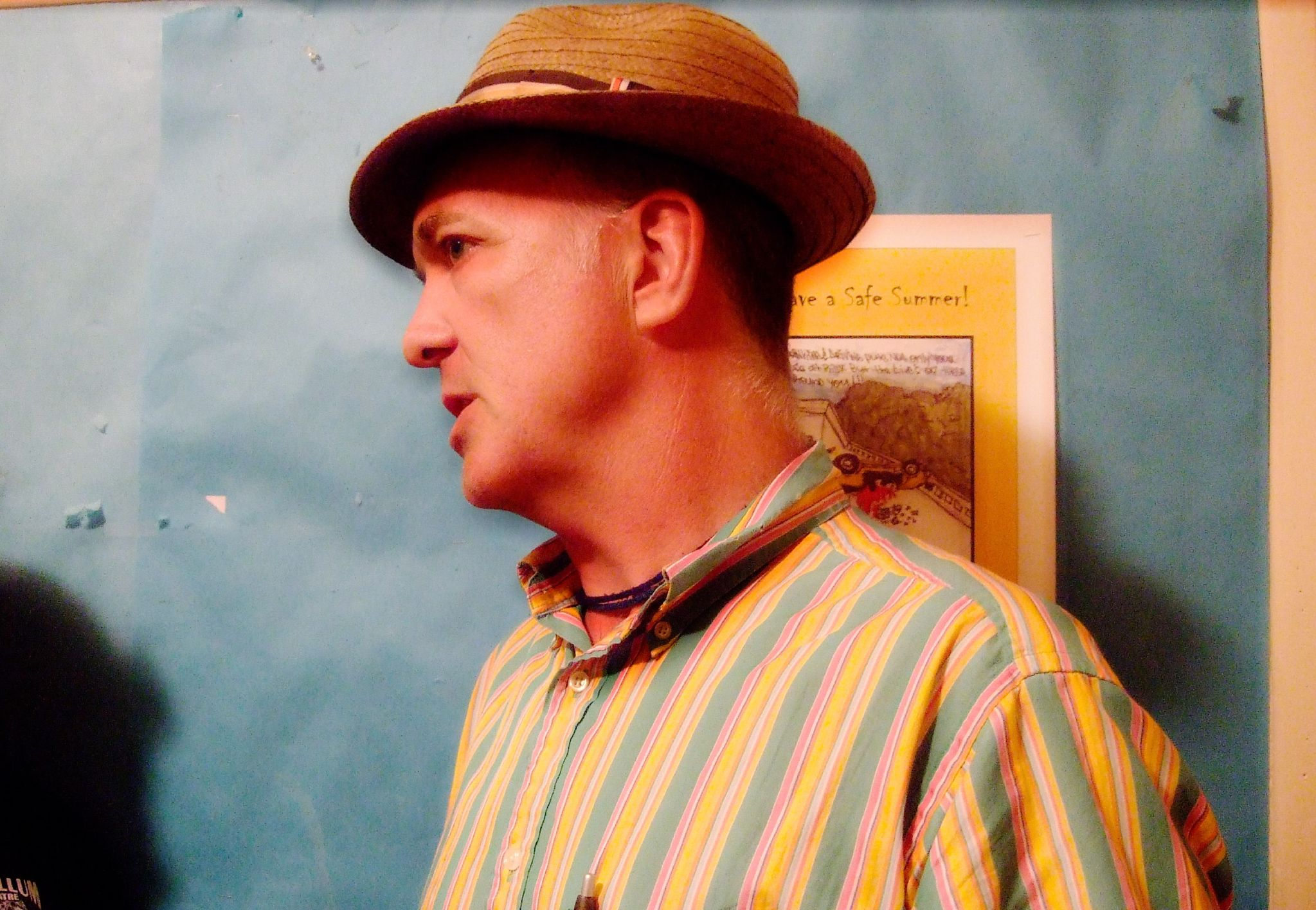 Scott Thunes. Former Frank and Dweezil Zappa Bass Player.